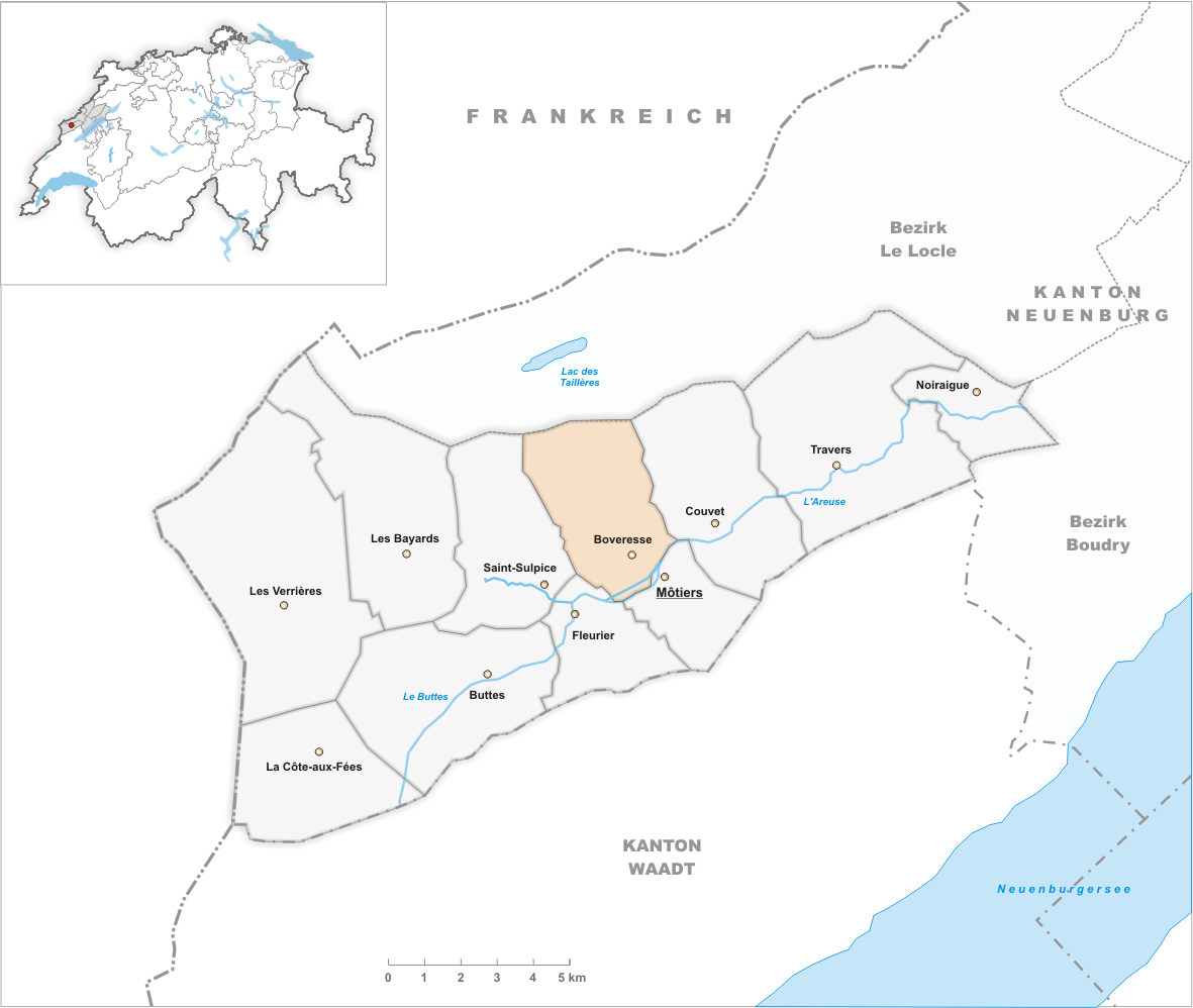 Municipality Boveresse